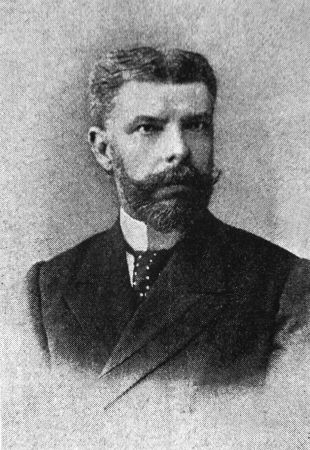 Nikolaos Kallifronas (1851-1896): Greek politician